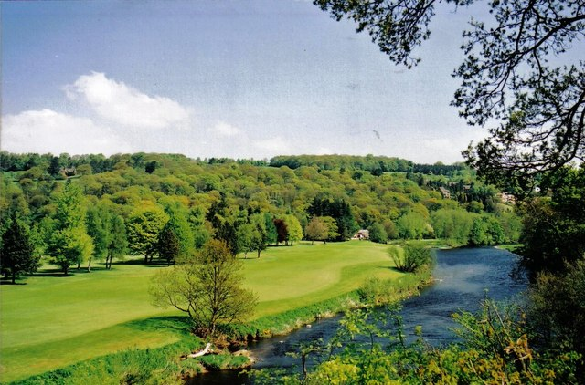 The golf course - Ilkley The river Wharfe and the lush green of Ilkley golf course viewed from the Dales Way near Cocking End.